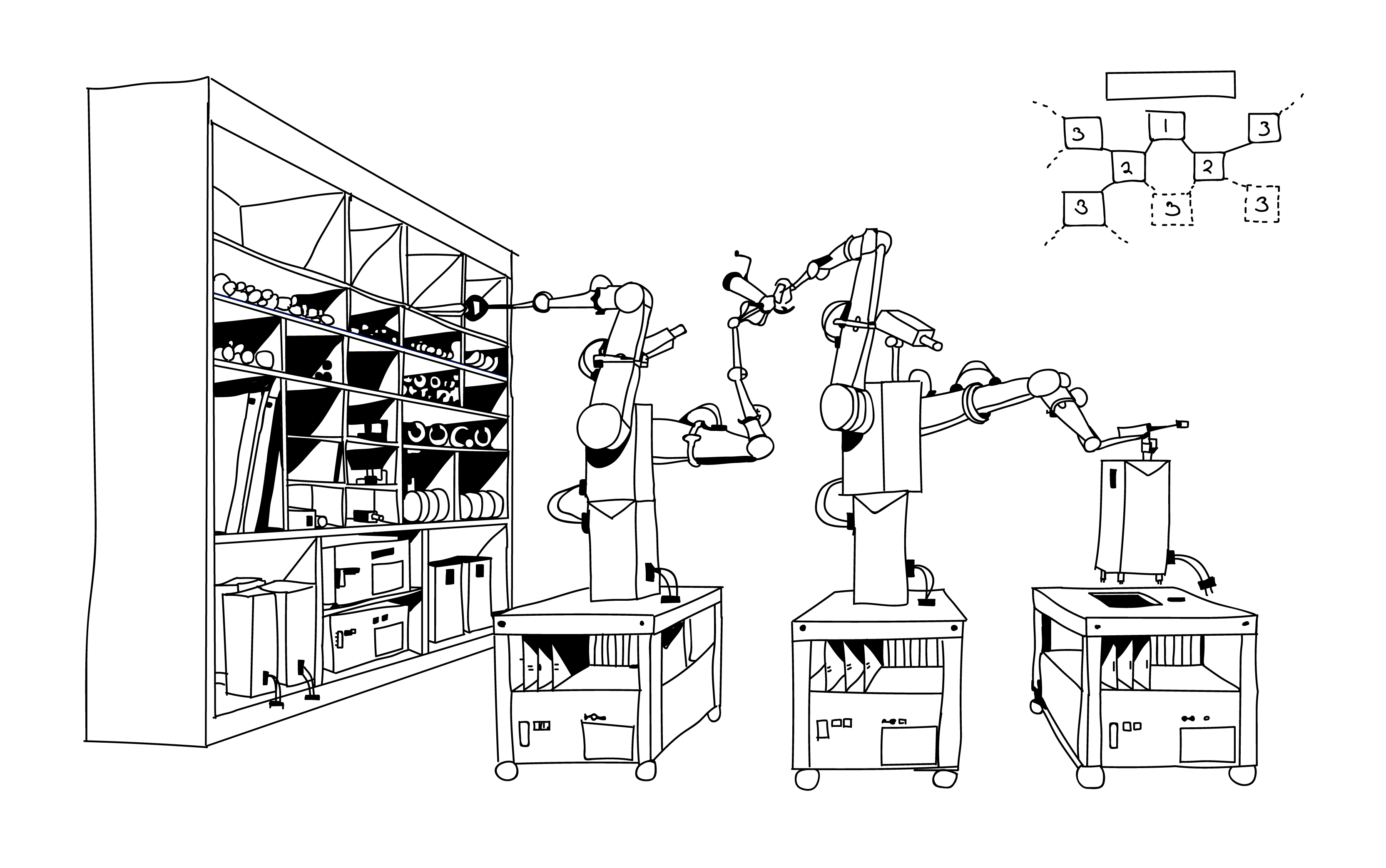 Sketch of robot arms that self-replicate theoretically exponentially